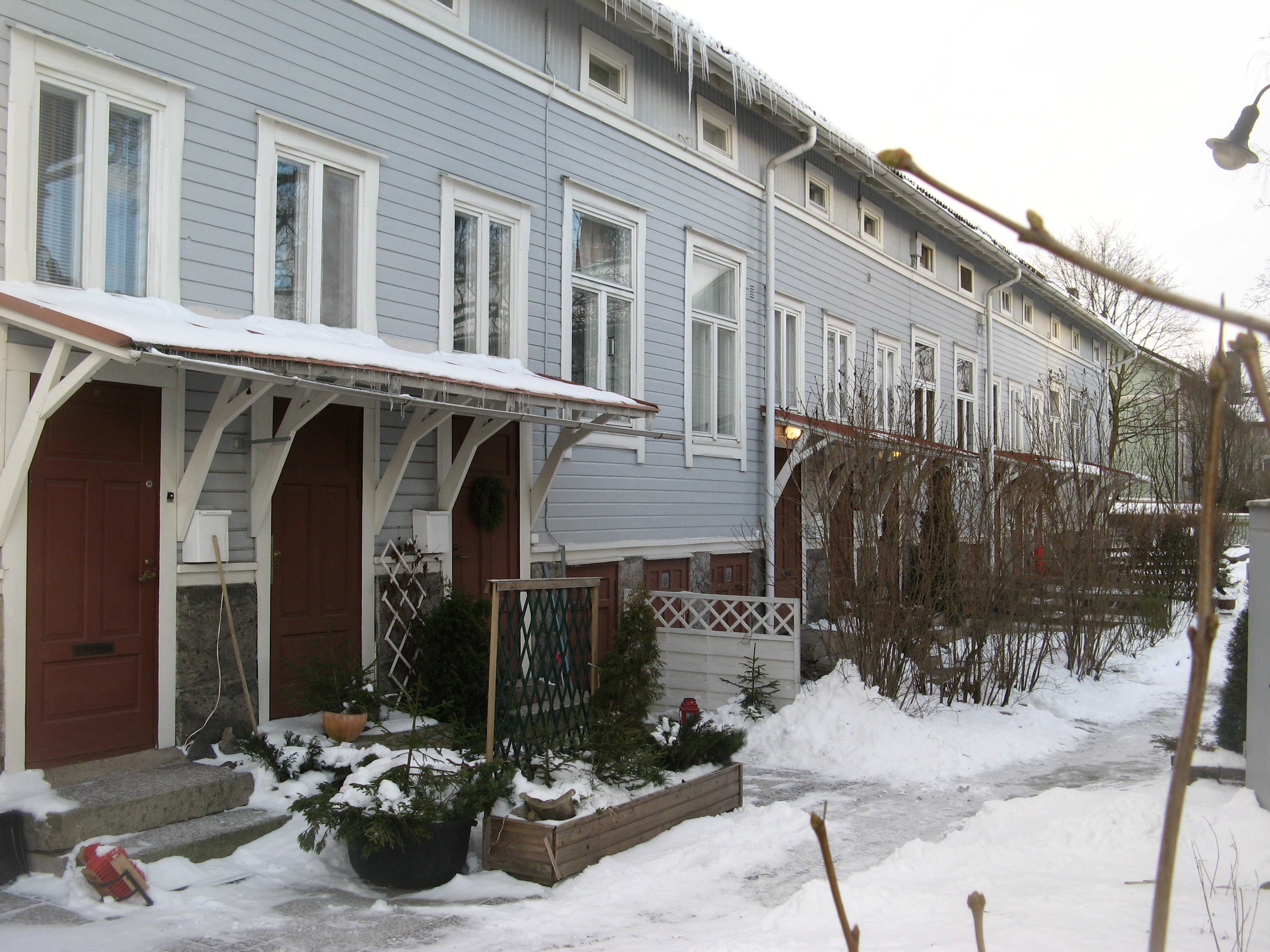 Yard in Port Arthur in Turku. Most of the houses were originally for workers and the appartments are mostly small.